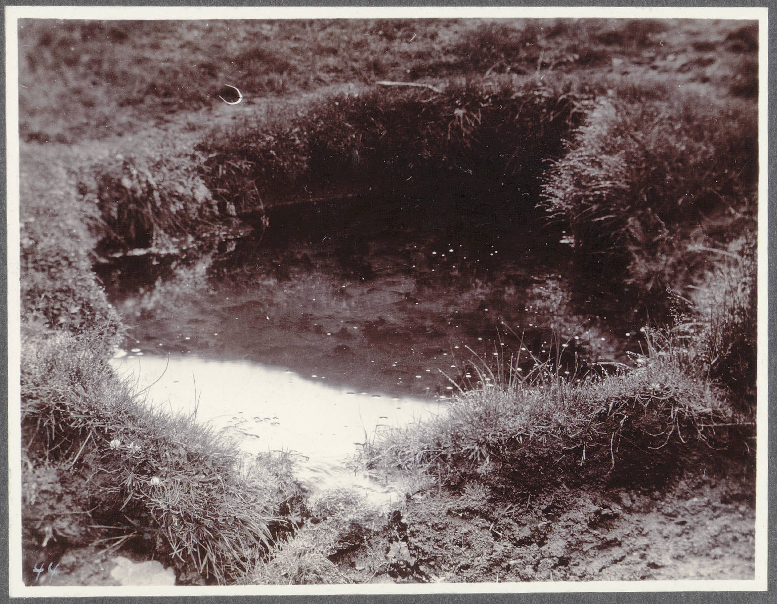 Collection: Icelandic and Faroese Photographs of Frederick W.W. Howell, Cornell University Library Title: Hot springs near Aðalból. Date: ca. 1900 Place: Aðalból (Norður-Múlasýsla, Iceland : Farmstead) Medium: collodion print Repository: Fiske Icelandic Collection, Rare & Manuscript Collections, Cornell University Library Accession: 1923.4.26 Description: Hot springs near Aðalból (Hrafnkelsá - Jökulsá á Brú). URL: Persistent URI: There are no known U.S. copyright restrictions on this image. The digital file is owned by the Cornell Univeristy Library which is making it freely available with the request that, when possible, the Library be credited as its source. We had some help with the geocoding from Web Services by Yahoo!